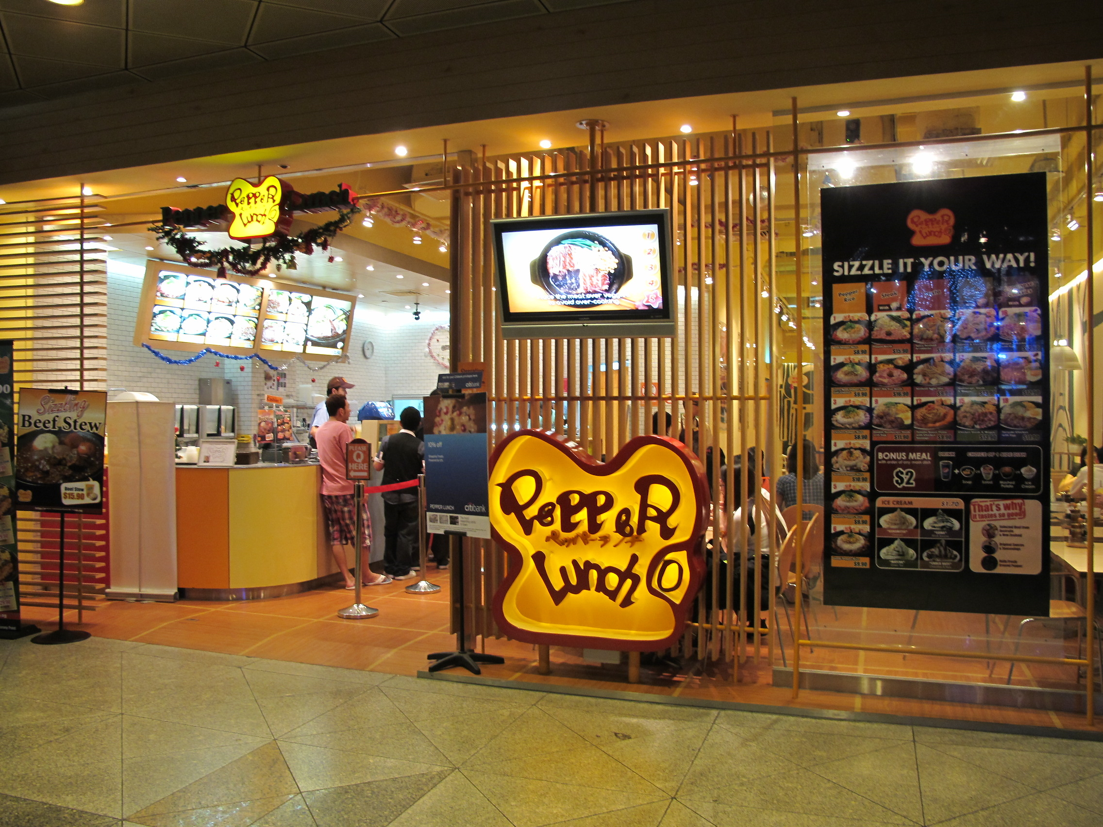 Pepper Lunch Store in Suntec City, Singapore